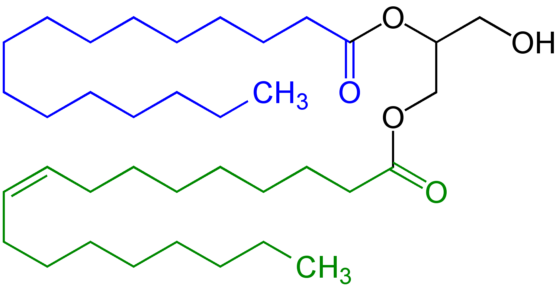 Diglyceride_Structural_Formula